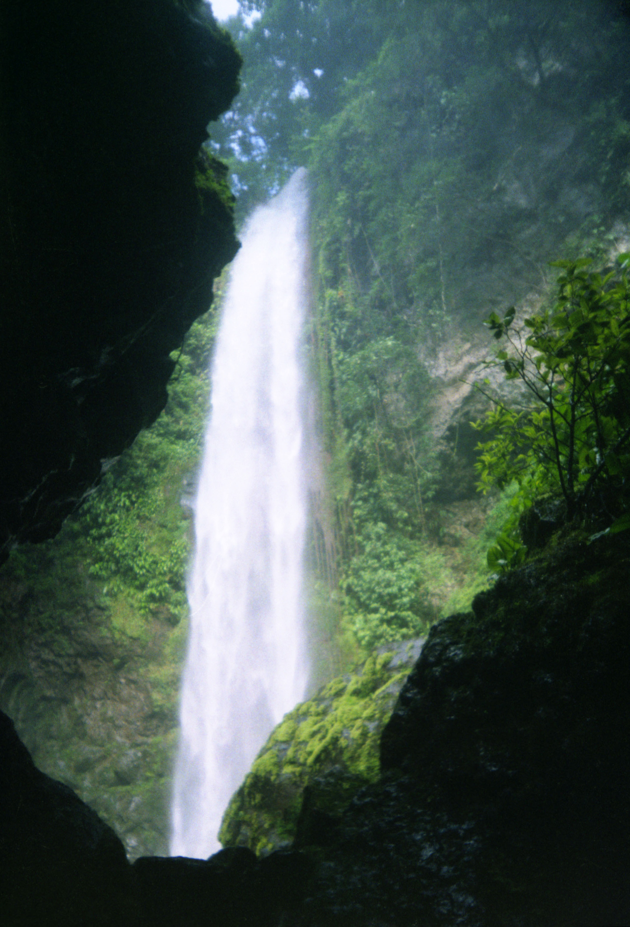 Waterfalls at Tlaxcalantongo, near Poza Rica, Veracruz, Mexico